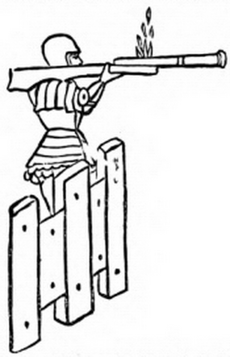 The title is the same as the image caption above & in "Cassell's Illustrated History of England, Volume 2". The number shown is the page number. Follow the image link to the full book vol.2.